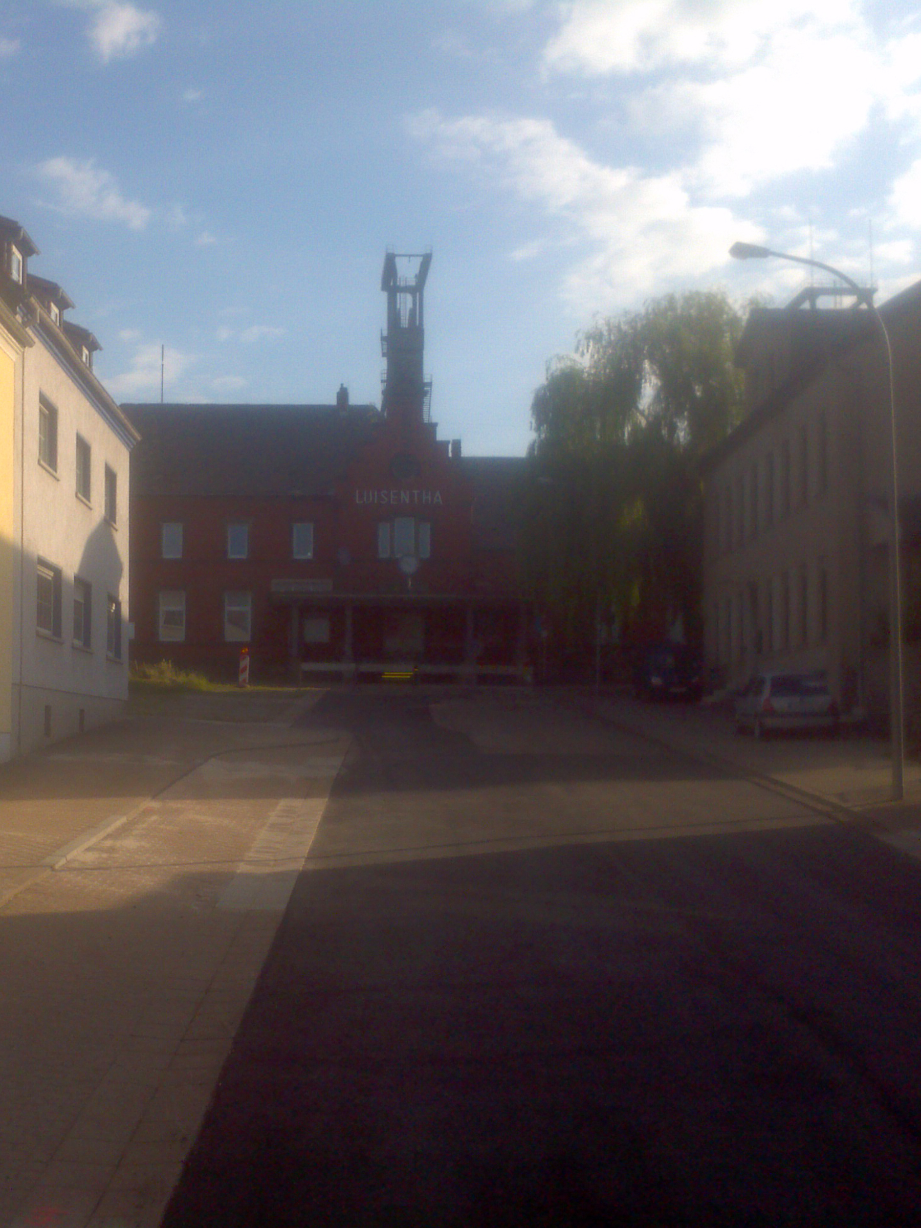 railway station Luisenthal (Saar) front, behind the old head frame pit Luisenthal